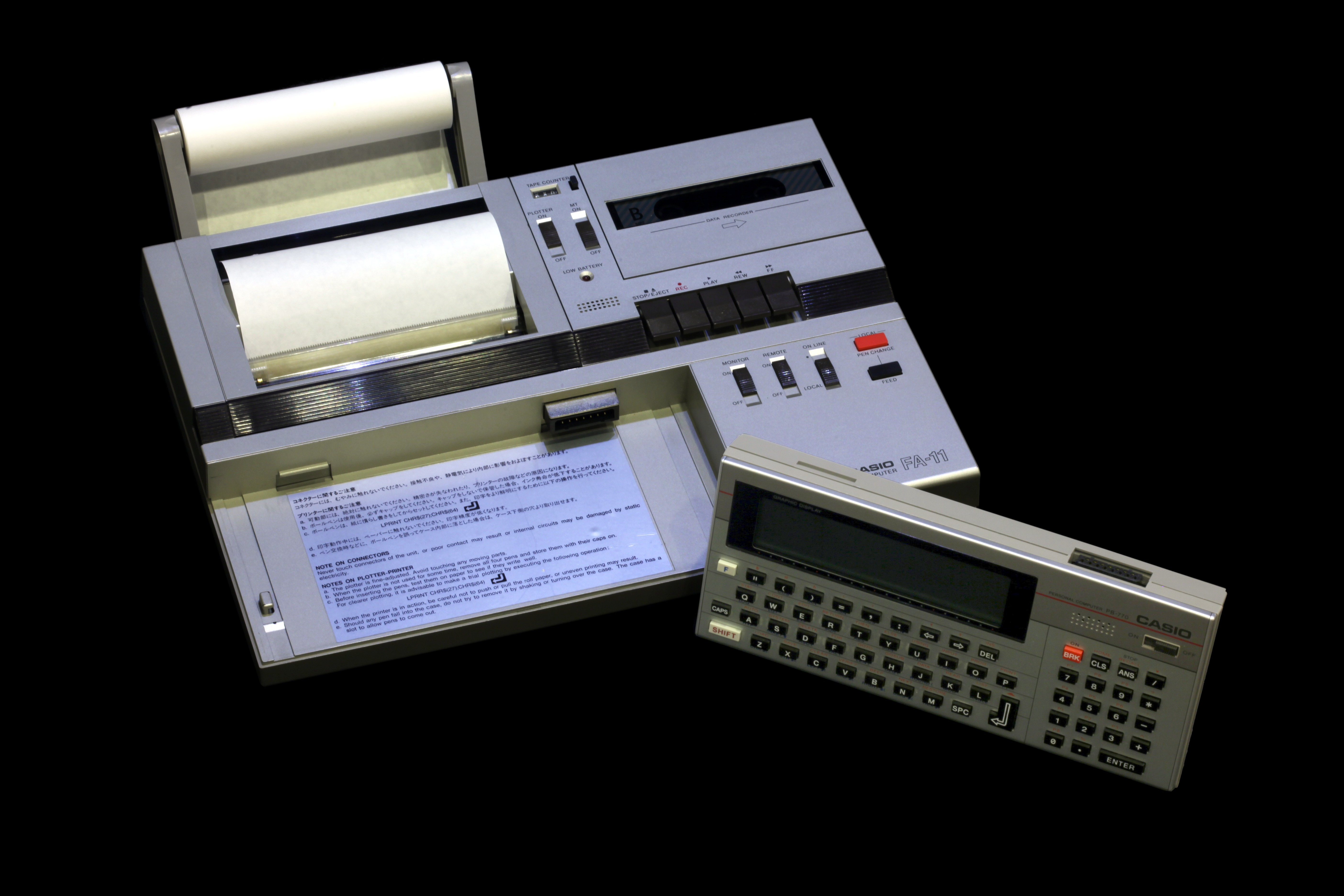 Casio PB-770 pocket computer, with Casio FA-11 extension dock. On display at the Musée Bolo, EPFL, Lausanne.